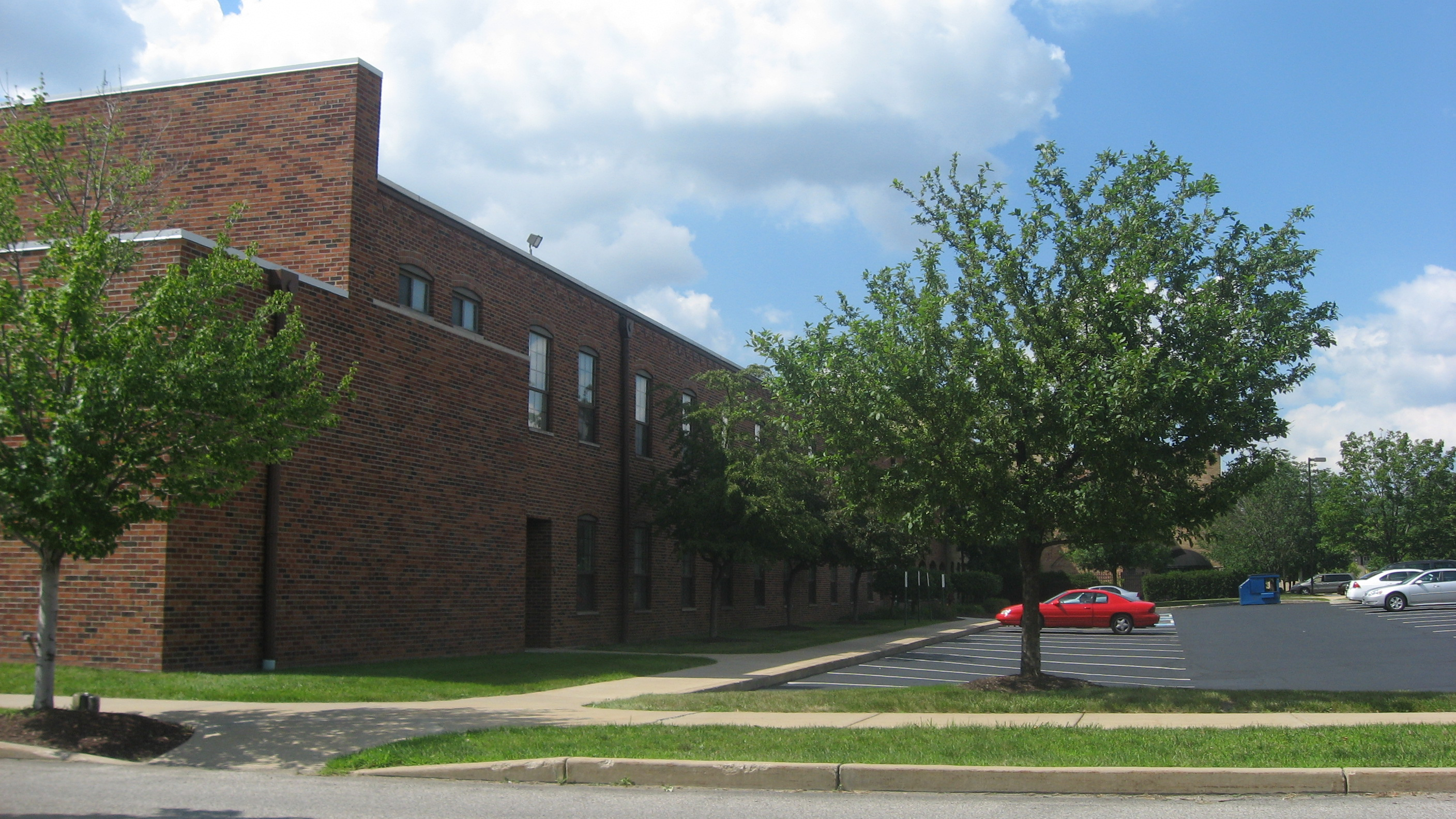 One of the buildings in the Singer Manufacturing-South Bend Lathe Co. Historic District, located north of Madison Street on the eastern side of the St. Joseph River in South Bend, Indiana, United States. Built in 1868, the complex is listed on the National Register of Historic Places.